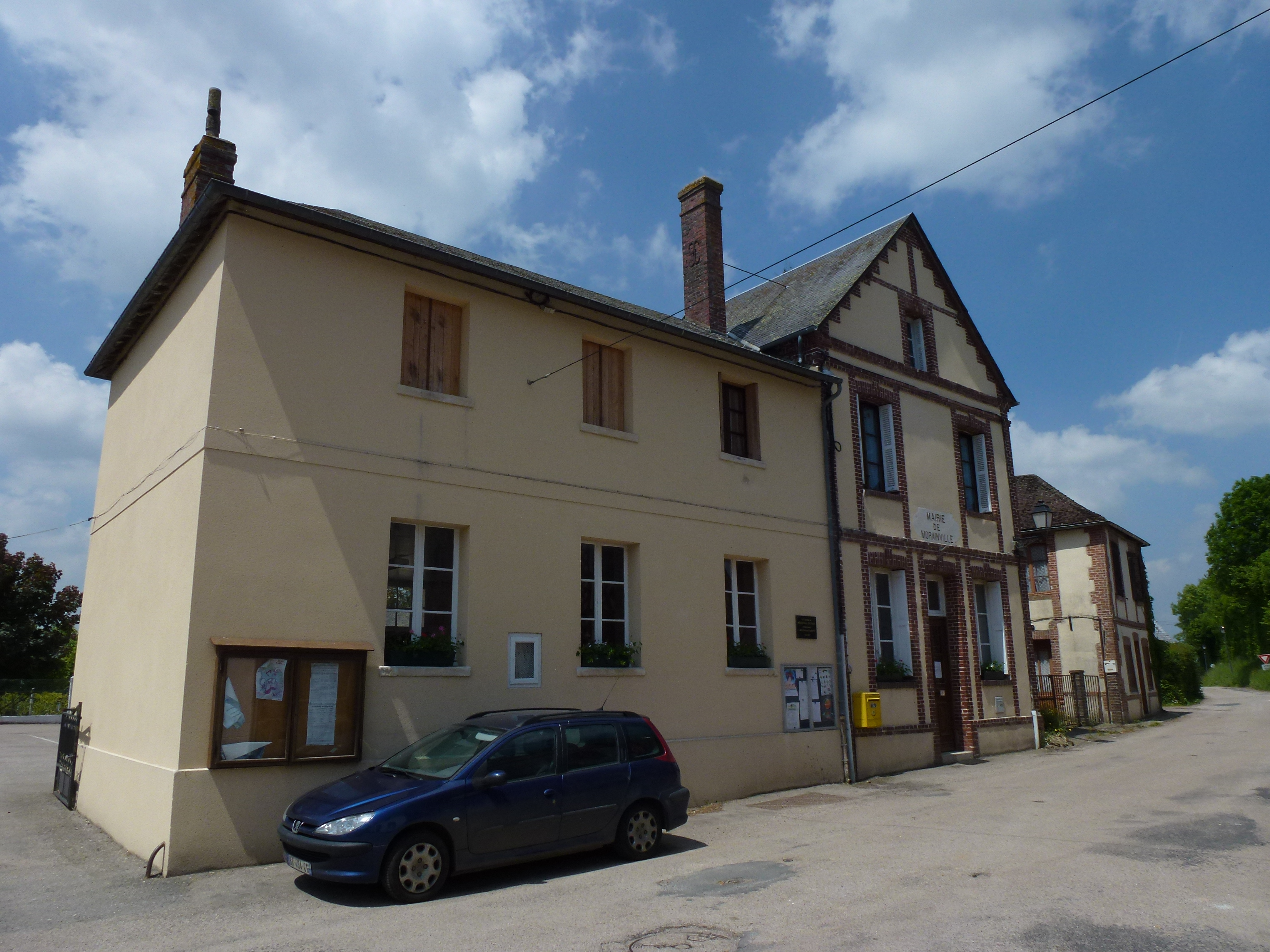 Morainville-Jouveaux (Eure, Fr) mairie à Morainville